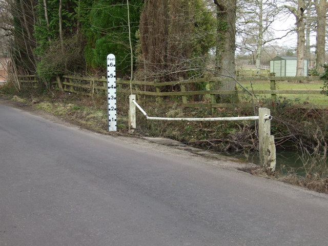 Ford on Burt's Lane On the road between Holt Heath and Mannington.